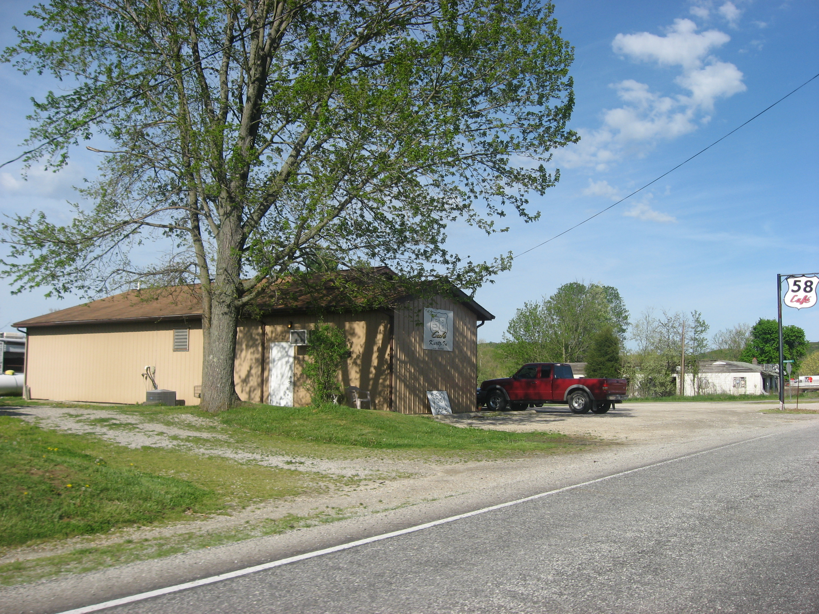 Roadside scene along Fourth Street (State Road 58) in Kurtz, Indiana, United States.